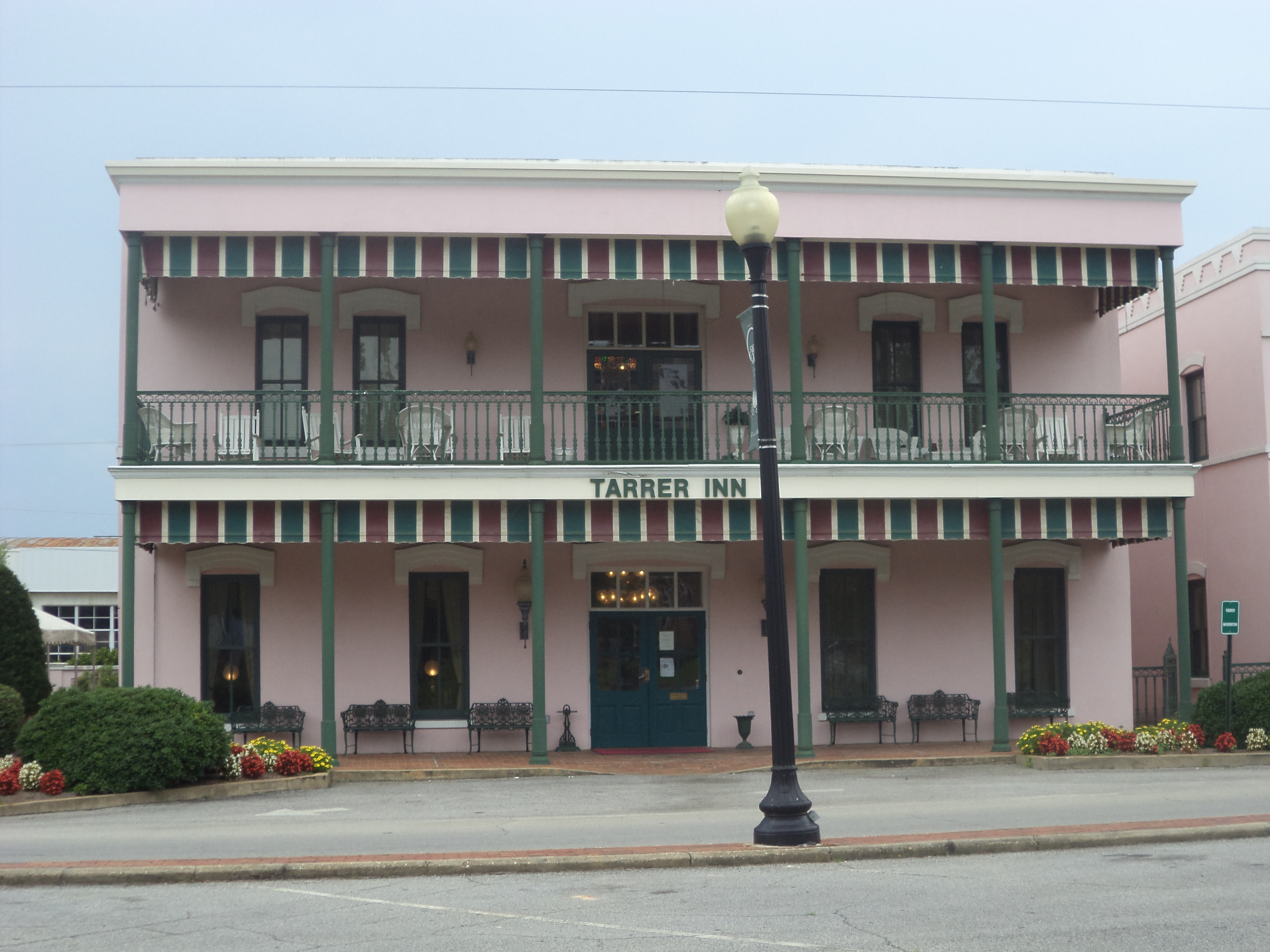 Tarrer Inn, Colquitt, Miller County, Georgia